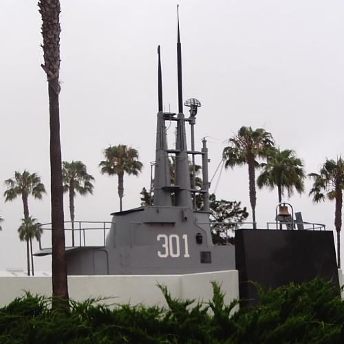 Photo I took of the USS Roncador (SS 301) Submarine Memorial at Naval Base Point Loma